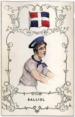 Oxford college rowing jerseys - booklet of lithograph plates - 1 of 6 - c. 1848